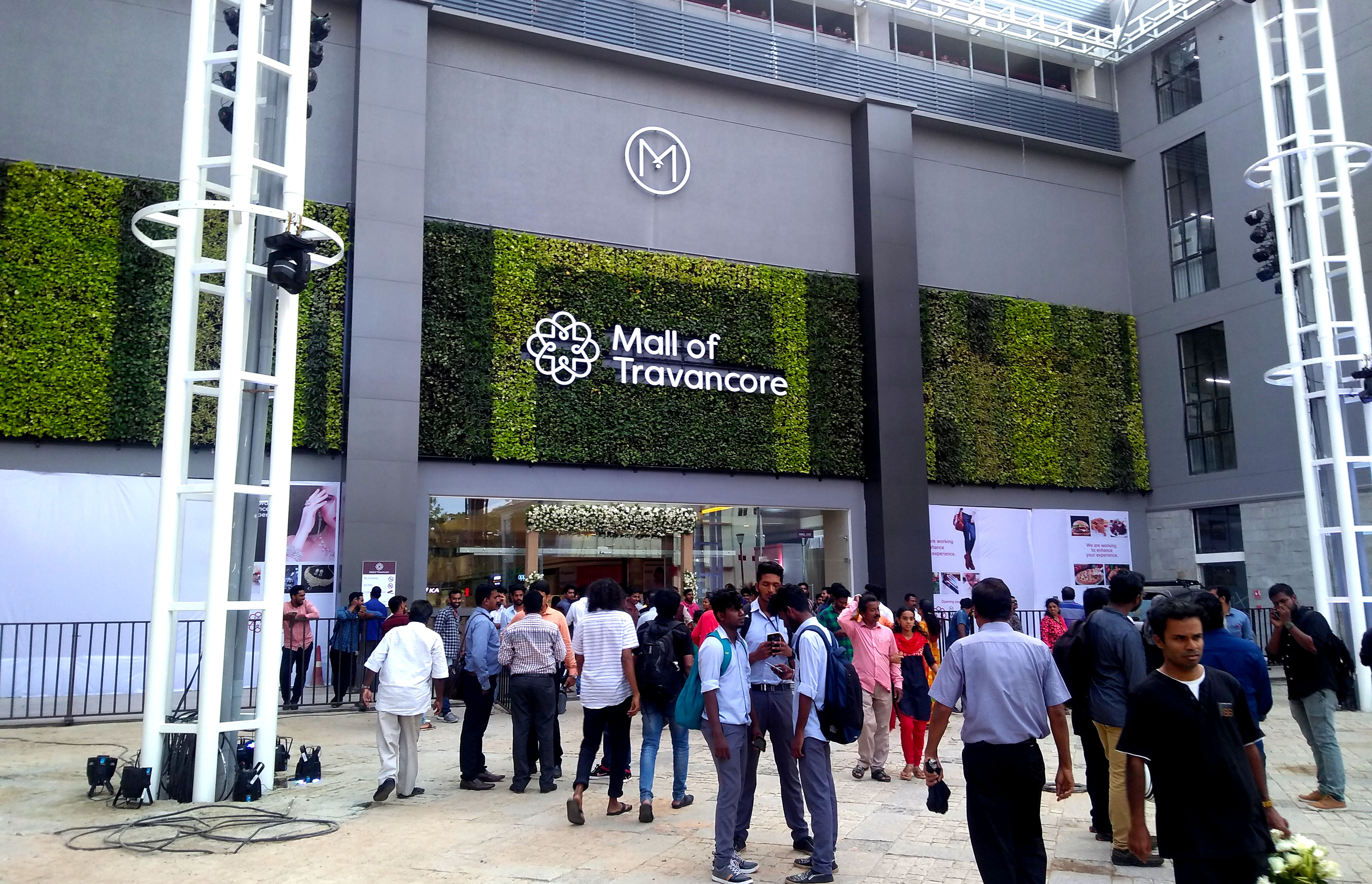 Mall of Travancore in Thiruvananthapuram city, Kerala, India.